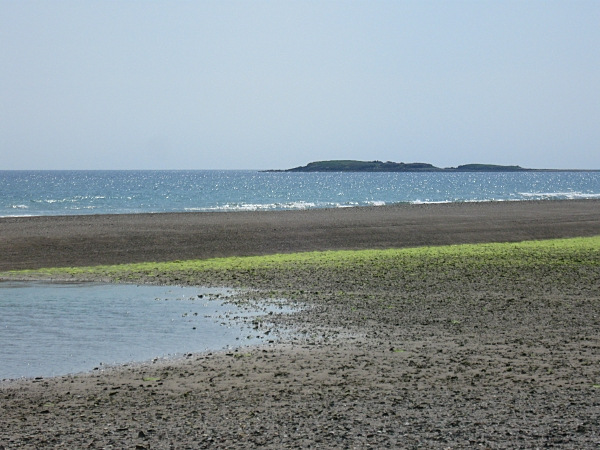 Keeragh Islands Keeragh Islands off Ballymadder Point near Cullenstown.